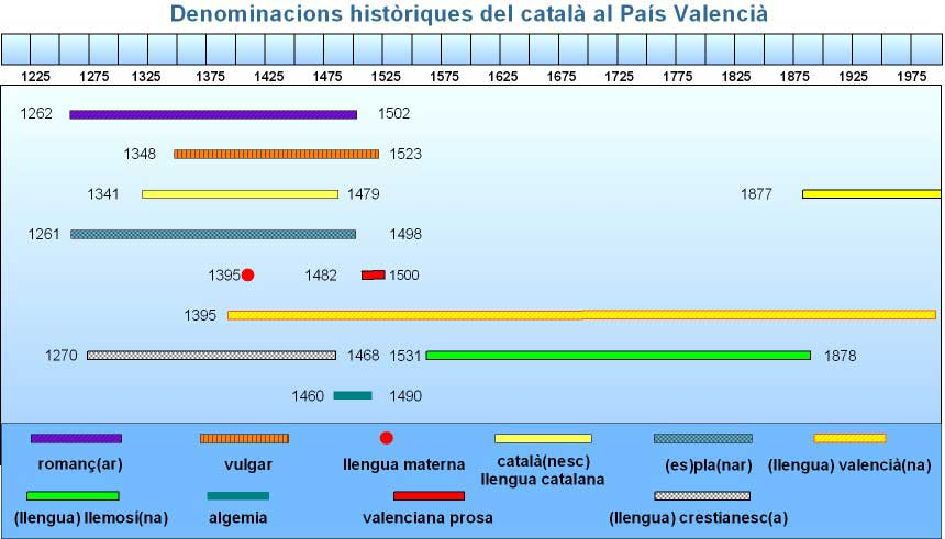 Historical names of the Catalan language in the Valentian Country.